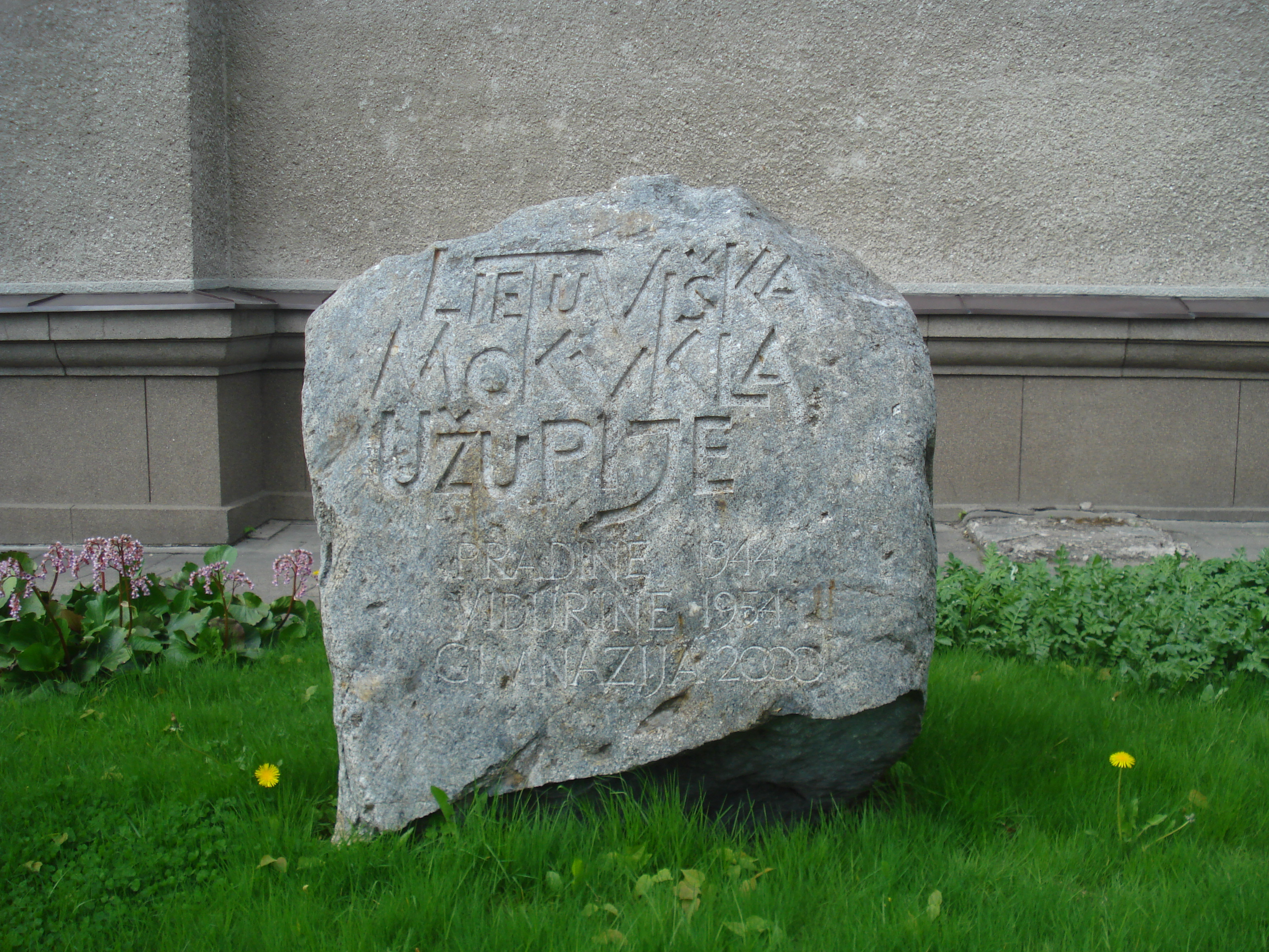 Vilniaus Užupis gymnasium, Lithuania. Memorial Stone